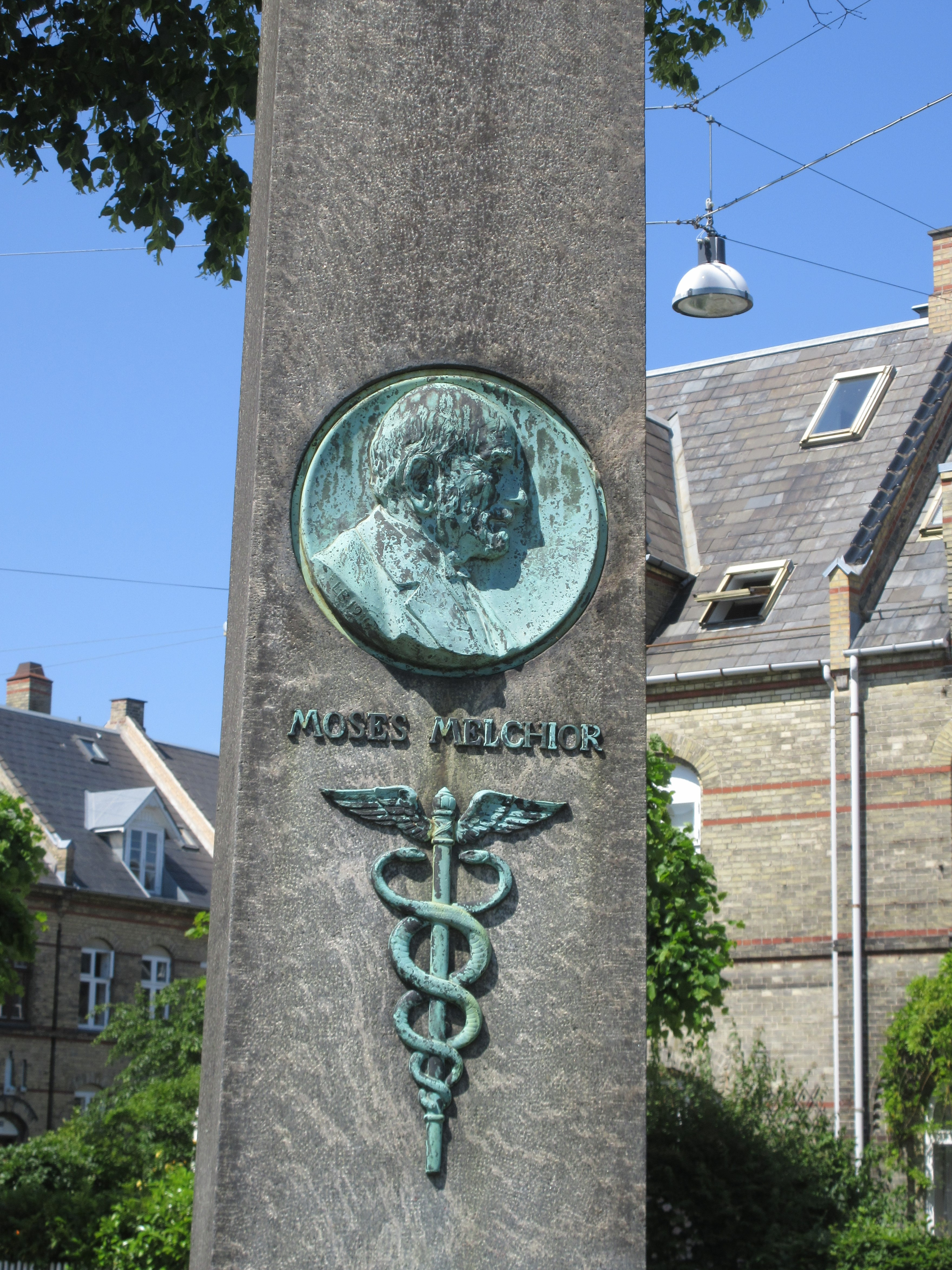 Relief of Moses Melchior on memorial un the Kildevæld Quarter of Copenhagen, Denmark